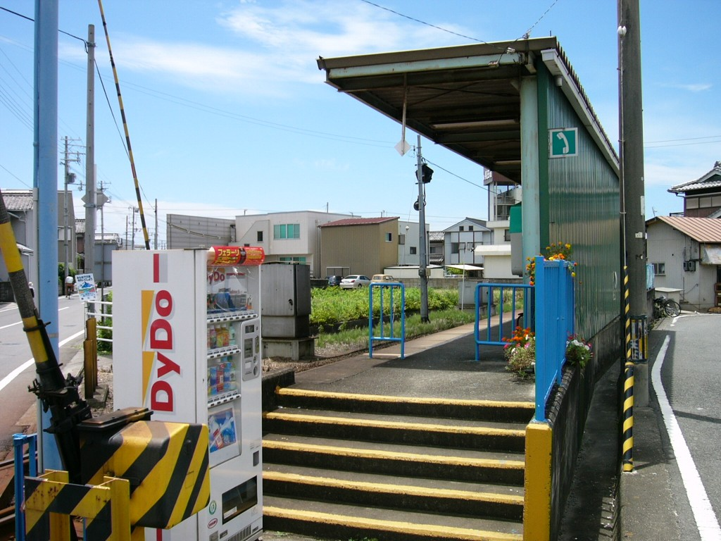 Frontview of Gakumon station of Kishu railway, Gobou city Wakayama prefecture Japan.